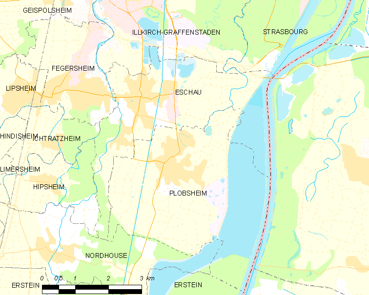 Map of French municipality